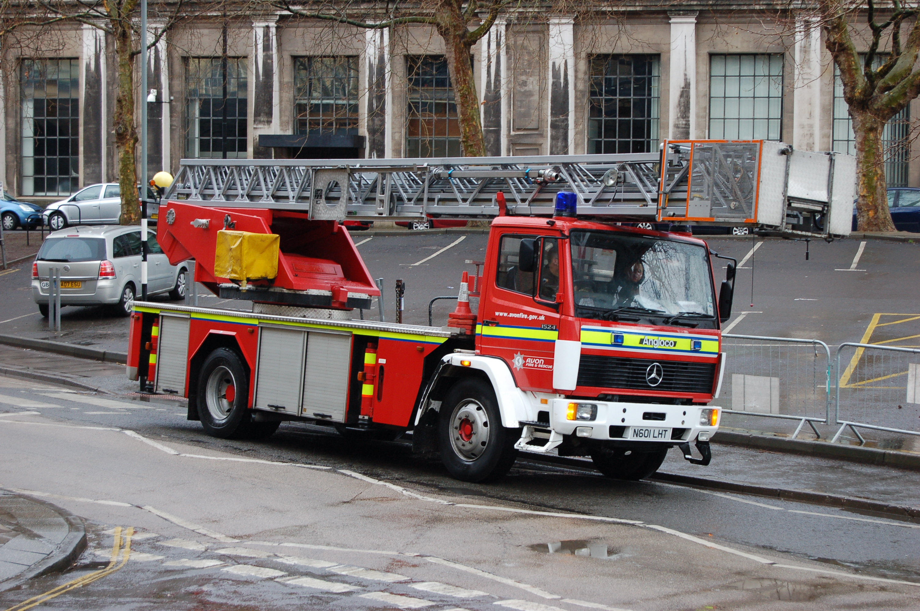 Photograph of a turntable ladder from Temple fire station in Bristol standing by on St. George's Road after attending a call at Queen's Parade.